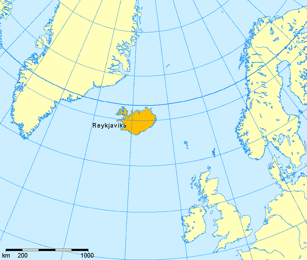 Locator map of Iceland in Northeastern Atlantic, emphasizing its north-position in relation to Greenland and Scandinavia